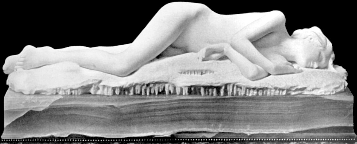 Large picture of the statue The Snowdrift by Edward Onslow Ford.